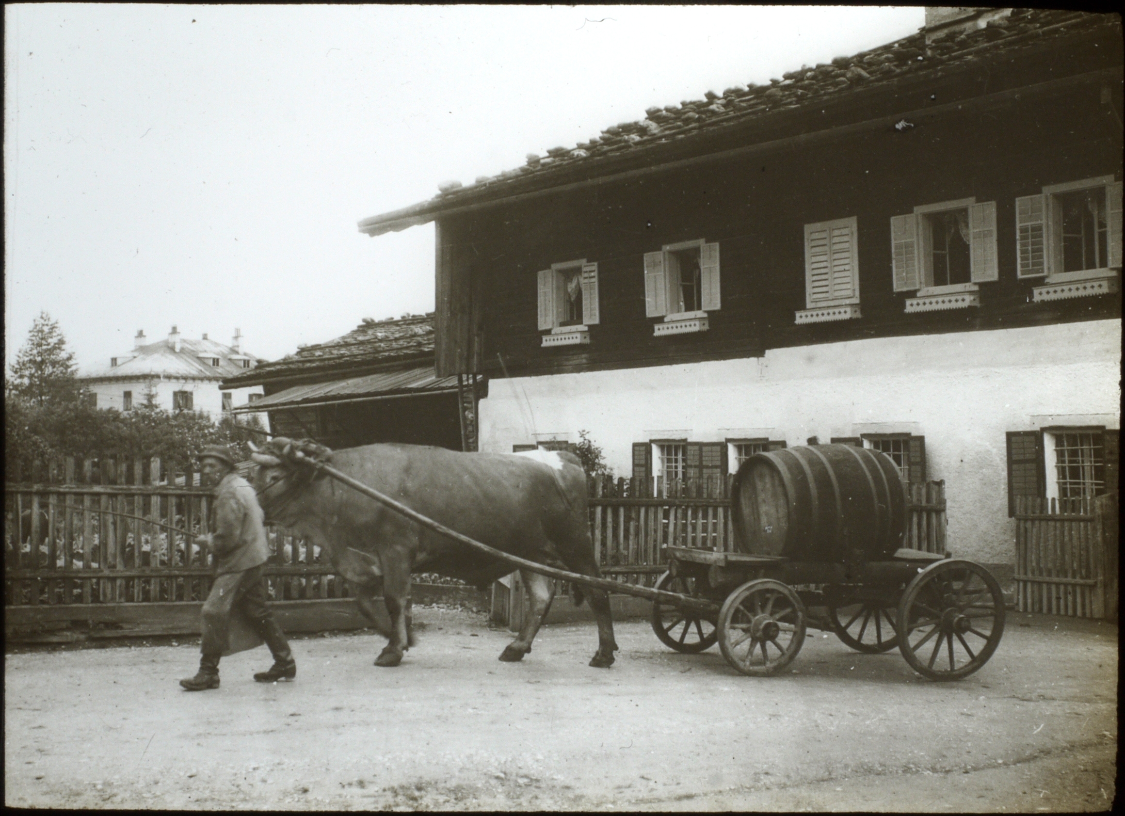 photo by A.E.Hasse, Baildon, Yorkshire. Orig. 6x6 glass platte diapositive